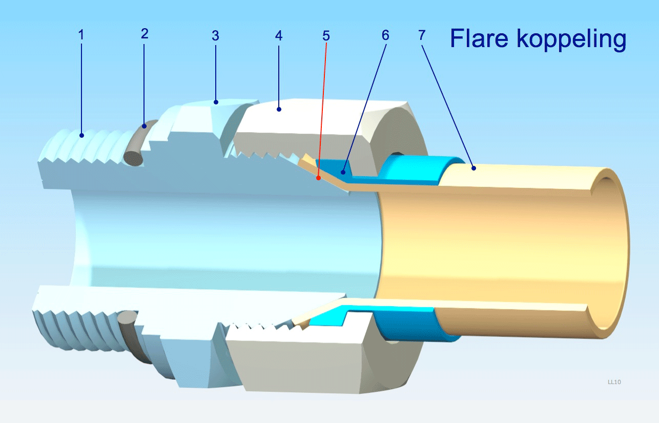 Flare fitting. 1 Screw thread. 2 O Seal ring. 3 Body. 4 Nut. 5 seal area. 6 Support ring (sleeve). 7 Tromped pipe.